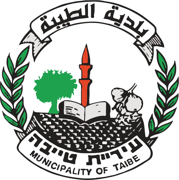 Coat of arms of the Taybeh municipality, Israel